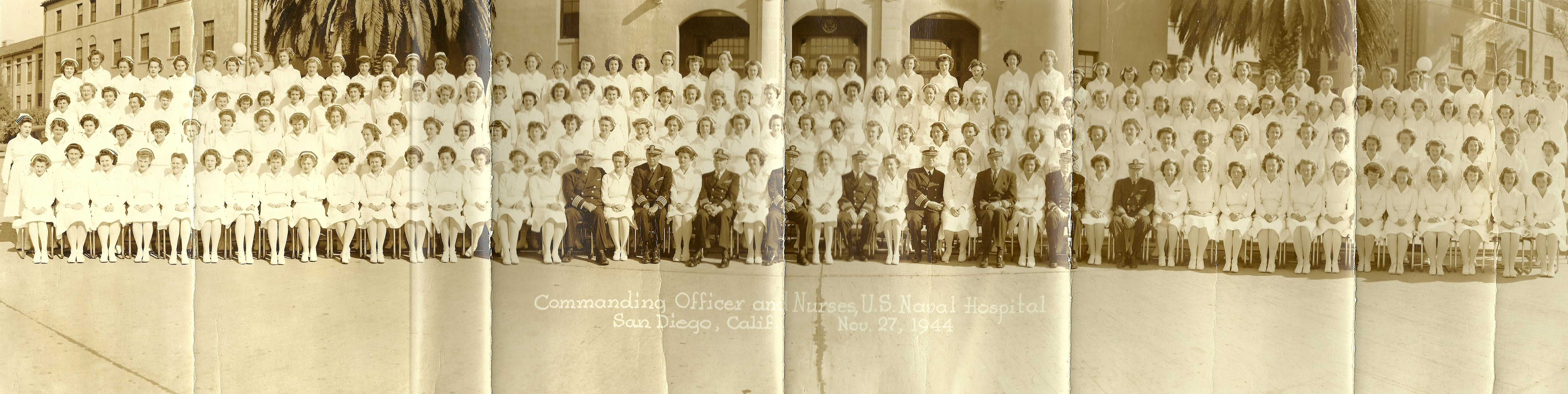 Commanding officer and Navy Nurse Corps RNs (commissioned officers) in front of the United States Naval Hospital administration building, Balboa Park, San Diego, California, 27 November 1944. Image from the LCDR Julia Anna Muraresku (Bricker) (pictured - front row, 20th from left) Collection, USN Nurse Corps (1941-46).